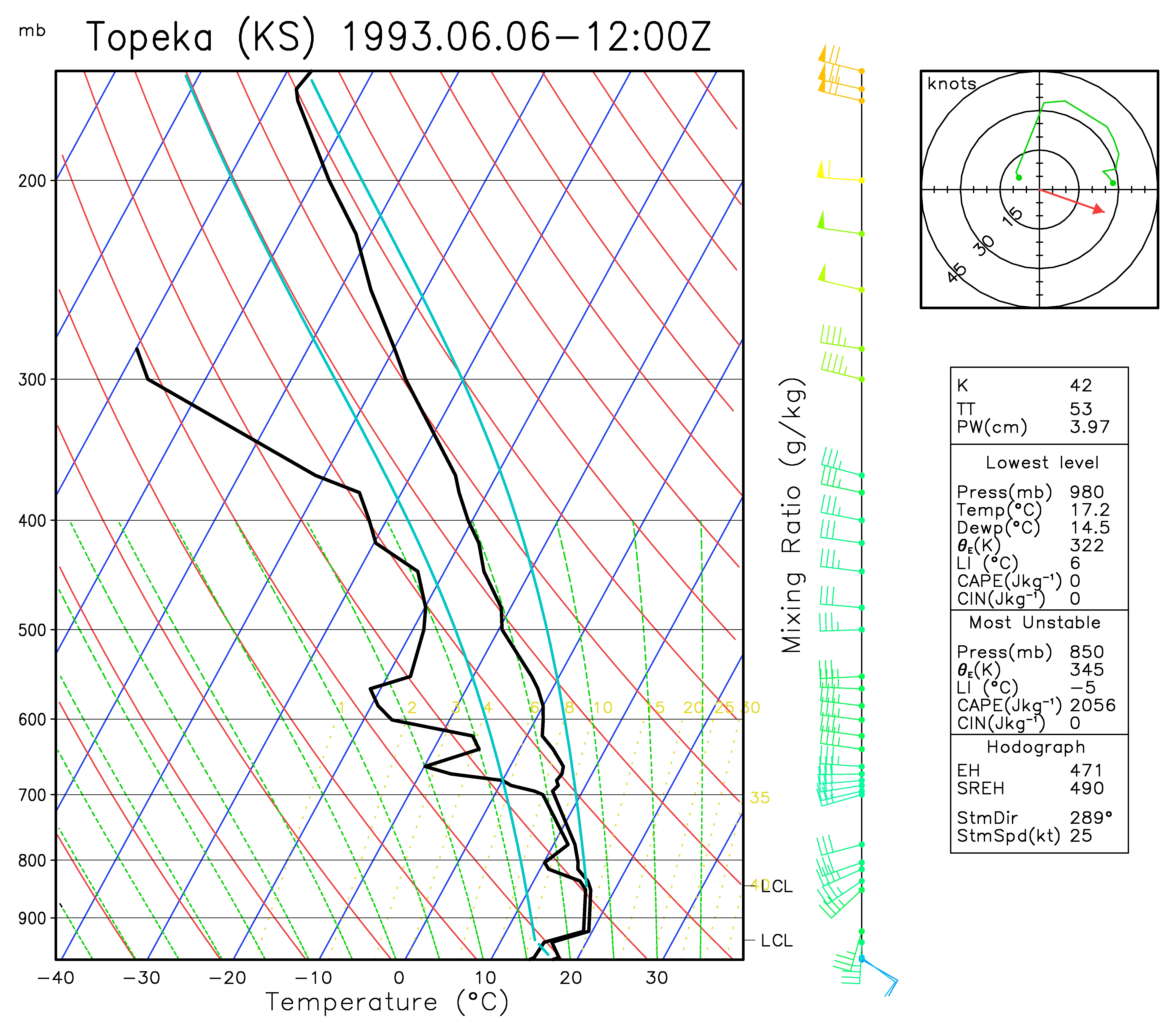 Skew T diagram at Topeka (KS) on 6th June 1993 at 07:00. Diagram created with grADS from public NOAA data.